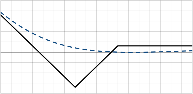 An example profit and loss diagram of a Put Backspread options strategy. The black solid line represents the value of the position at expiry. The blue dashed line shows the value of the position at some time before the options expire and when there is substantial volatility.